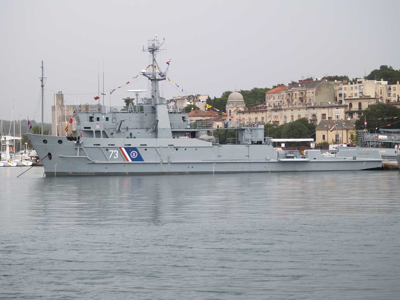 BS-73 Faust Vrančić (Croatian war navy)